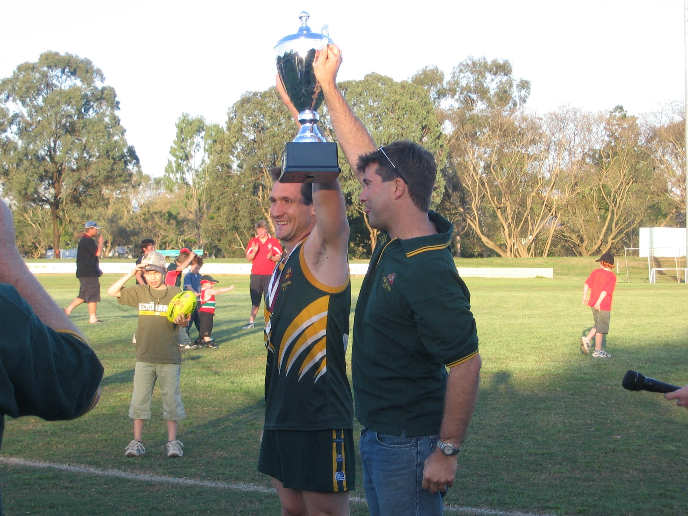 Kenmore Australian Football Club Grand Final photo #3